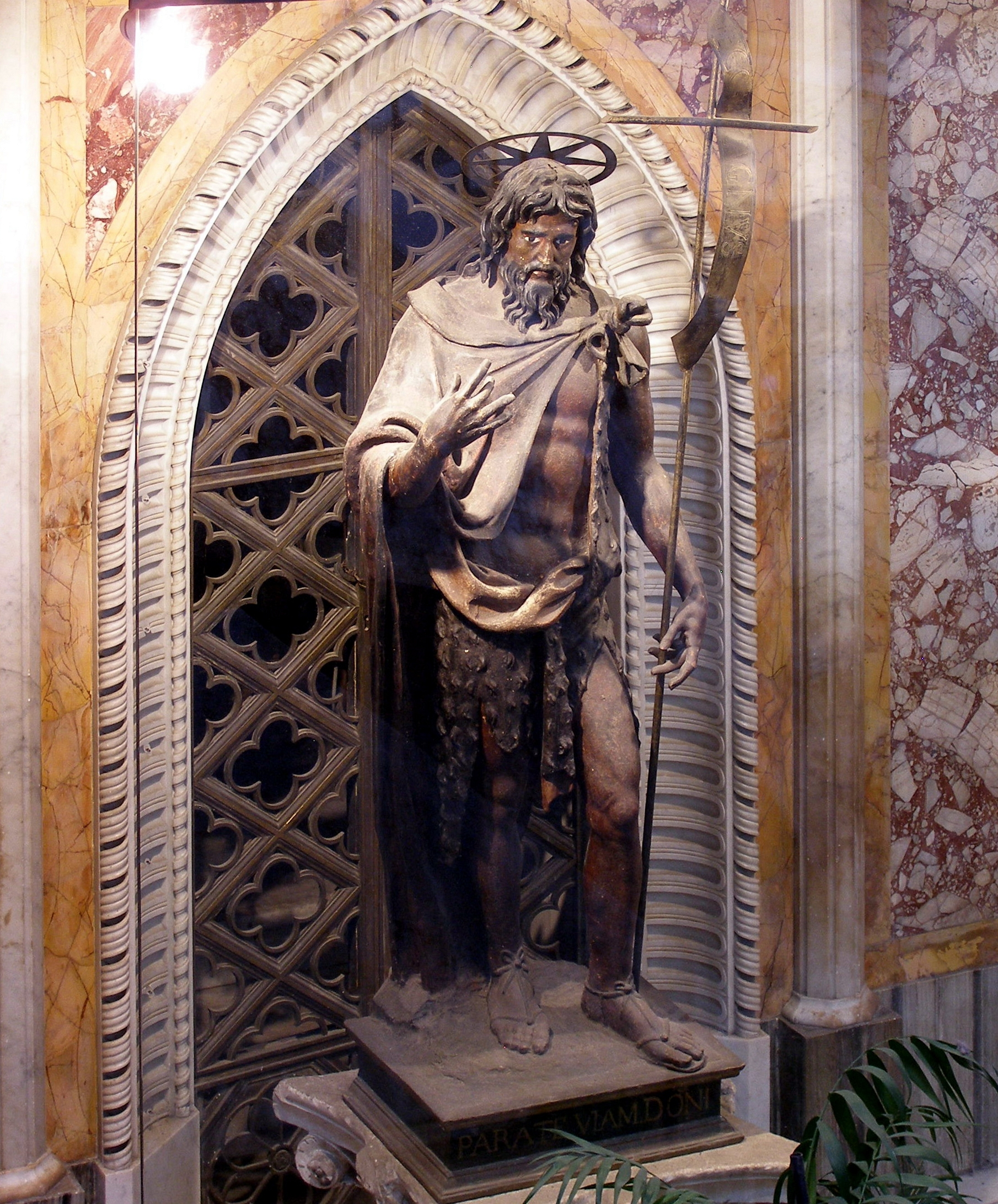 Rome, Archbasilica of St. John Lateran, Saint John the Baptist